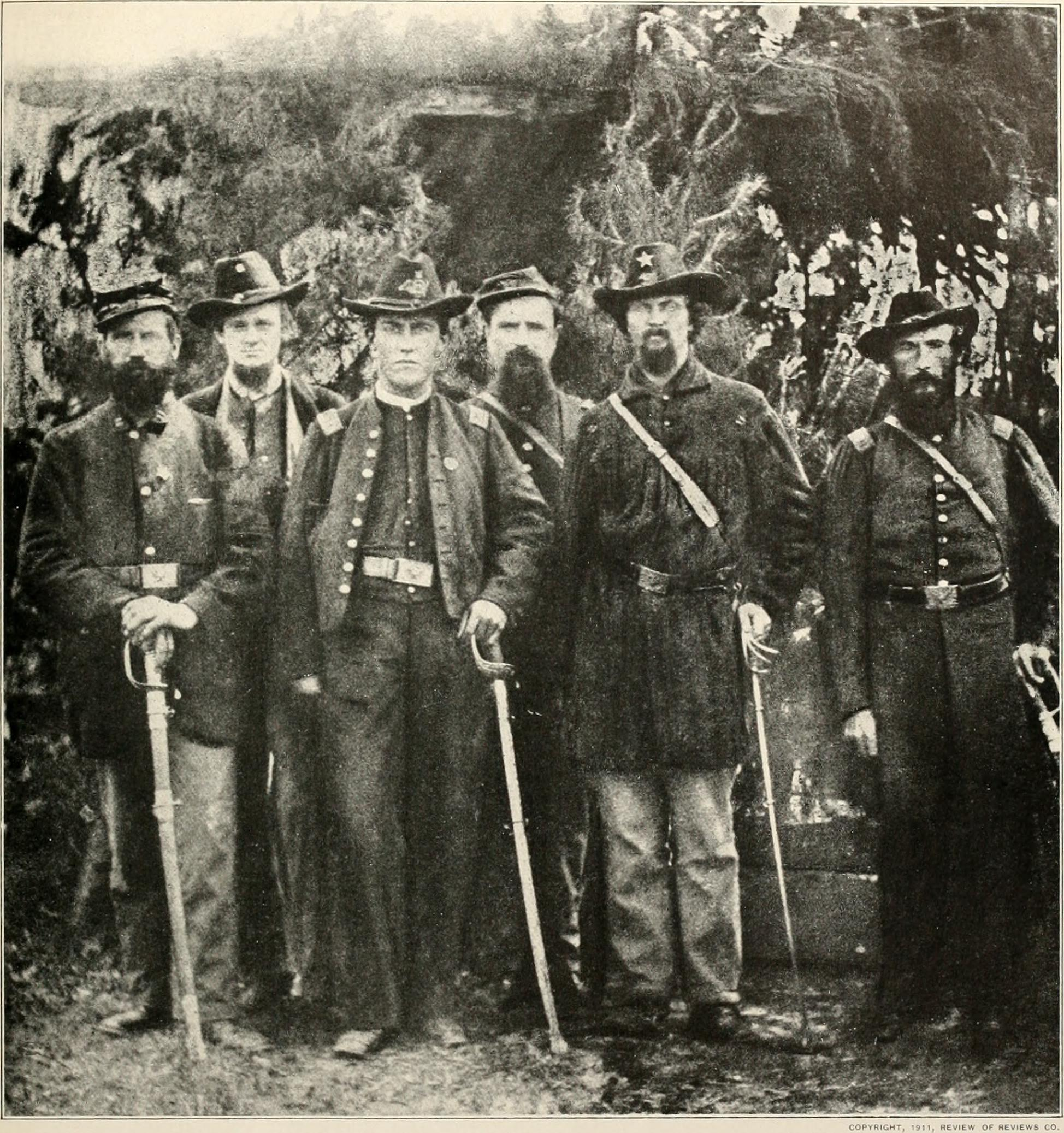 Title: The photographic history of the Civil War : thousands of scenes photographed 1861-65, with text by many special authorities Year: 1911 (1910s) Authors: Miller, Francis Trevelyan, 1877-1959 Lanier, Robert S. (Robert Sampson), 1880- Subjects: United States -- History Civil War, 1861-1865 Pictorial works United States -- History Civil War, 1861-1865 Publisher: New York : Review of Reviews Co. Text Appearing Before Image: ' Text Appearing After Image: A FEDERAL COURT-MARTIAL AFTER GETTYSBURG The court-niartiiil liere pictured is that of the second division, Twelfth Army Corps. It was convened at Ellis Ford, \a., in July,18G3. Such officers were especially detailed from various regiments of a division of their corps, for the purpose of judging all classesof cases, crimes, and misdemeanors against the general regulations of the army. The officers above tried a large number of cases ofdesertion, insubordination, and di.sobedience to orders, sentencing in this particular court-martial three deserters to be shot. Twoof these men were executed in the presence of the whole division, at Mortons Ford on the Rapidan, in September following. Theidea of a court-martial in the service was somewhat similar to that of a civil jury. The judge-advocate of a general court-martialstood in tlie relationship of a prosecuting district-attorney, except for the fact that he had to protect the prisoners interest when thelatter was unable to employ counsel.